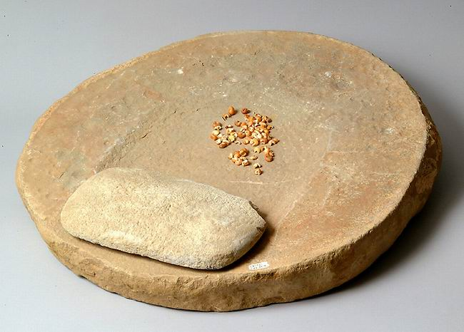 Corn Grinding Tools Metate (underneath) Chaco Anasazi Trough slab for grinding corn into flour Site number, 29sJ 391, AD 920-1120 Sandstone. L 50.0, W 45.0, T 5.8 cm Chaco Culture National Historical Park, CHCU 29588 Mano (resting on metate) Chaco Anasazi Site number, 29SJ 1360, AD 950-1030 Two-handed tool for grinding corn Sandstone. L 20.7, W 12.4, T 2.6 cm Chaco Culture National Historical Park, CHCU 7041 Corn Kernels Chaco Anasazi Site name, Gallo Cliff Dwelling, AD 1100-1200 9.8 gms Chaco Culture National Historical Park, CHCU 33256